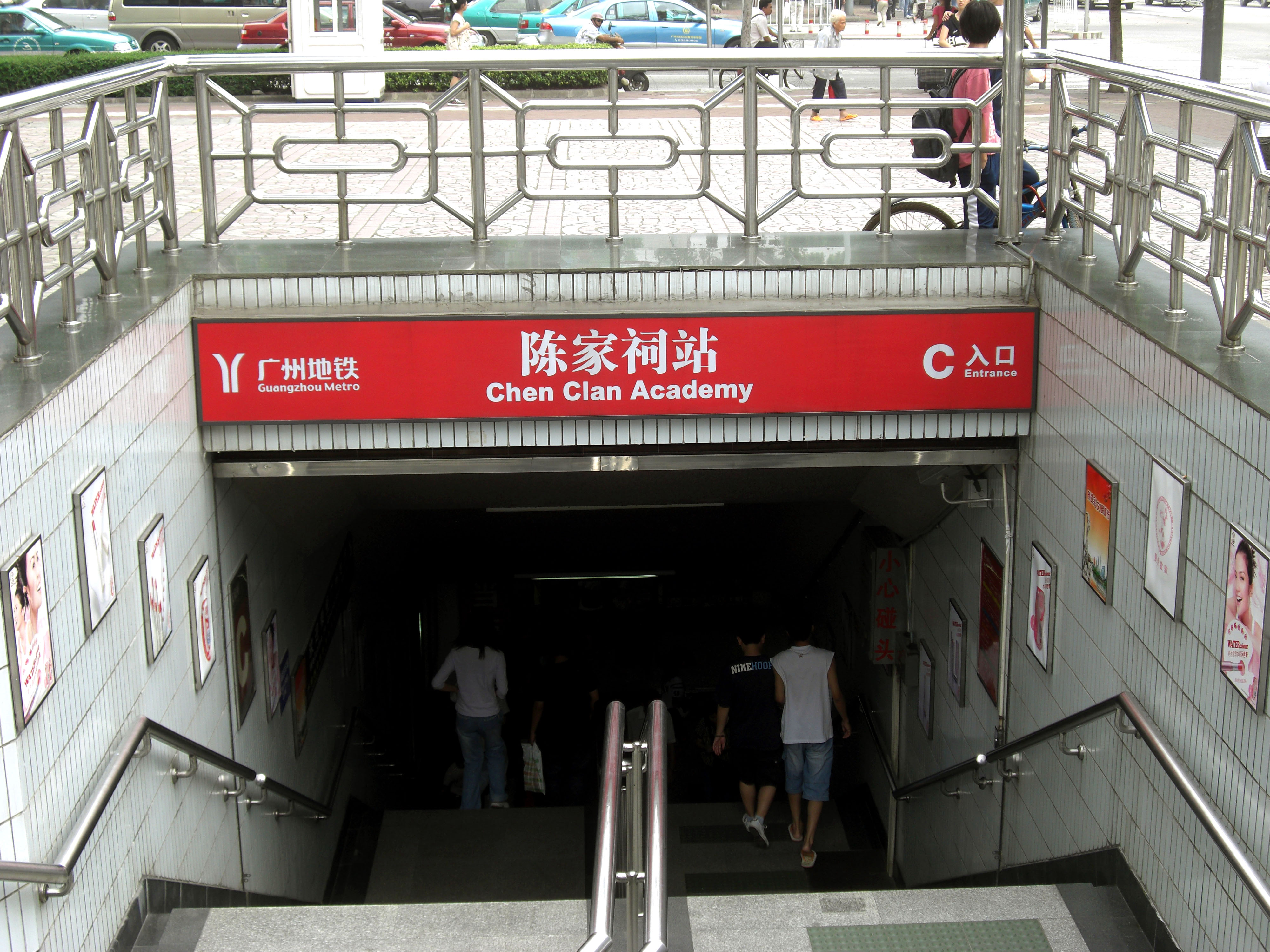 Chen Clan Academy Station,Guangzhou Metro,Guangzhou,China